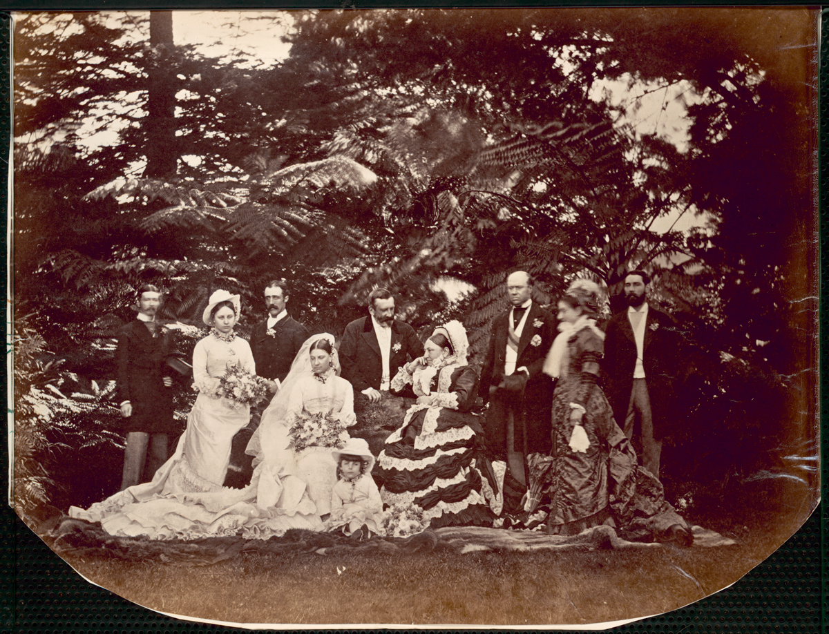 The wedding party for the marriage of Nora Augusta Maud, daughter of Sir Hercules and Lady Nea Robinson, to A.K. Finlay, Sydney, August, 1878.